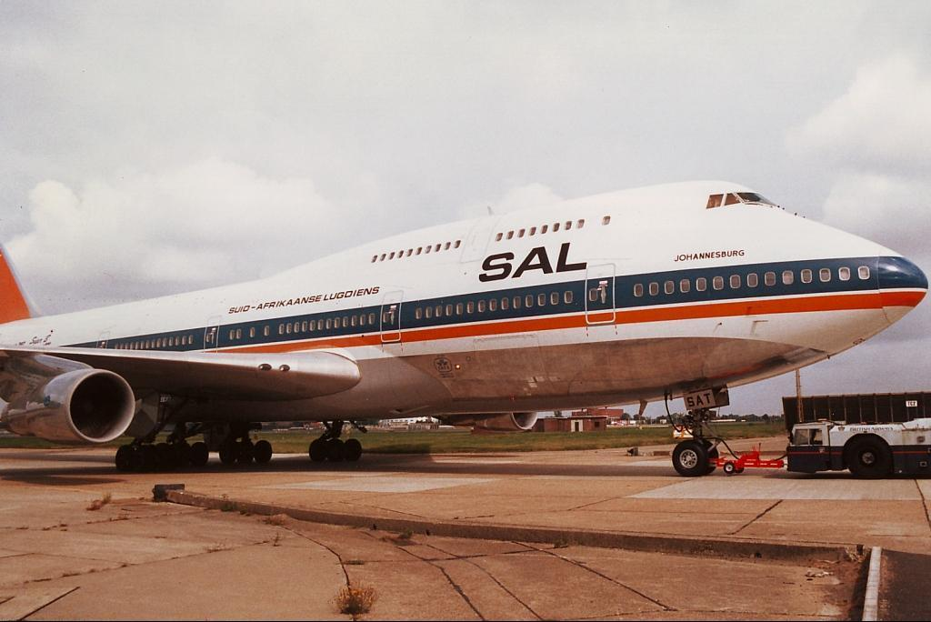 Boeing 747-300 in the 1970s-1997 livery.